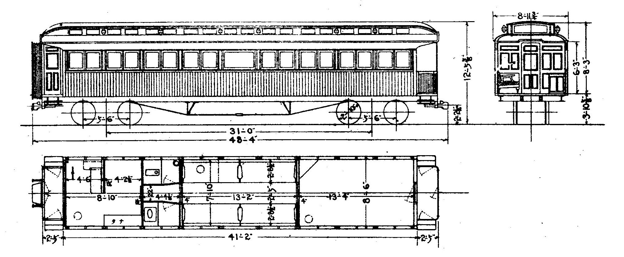 Type drawing of JGR's passenger car Hoya5015